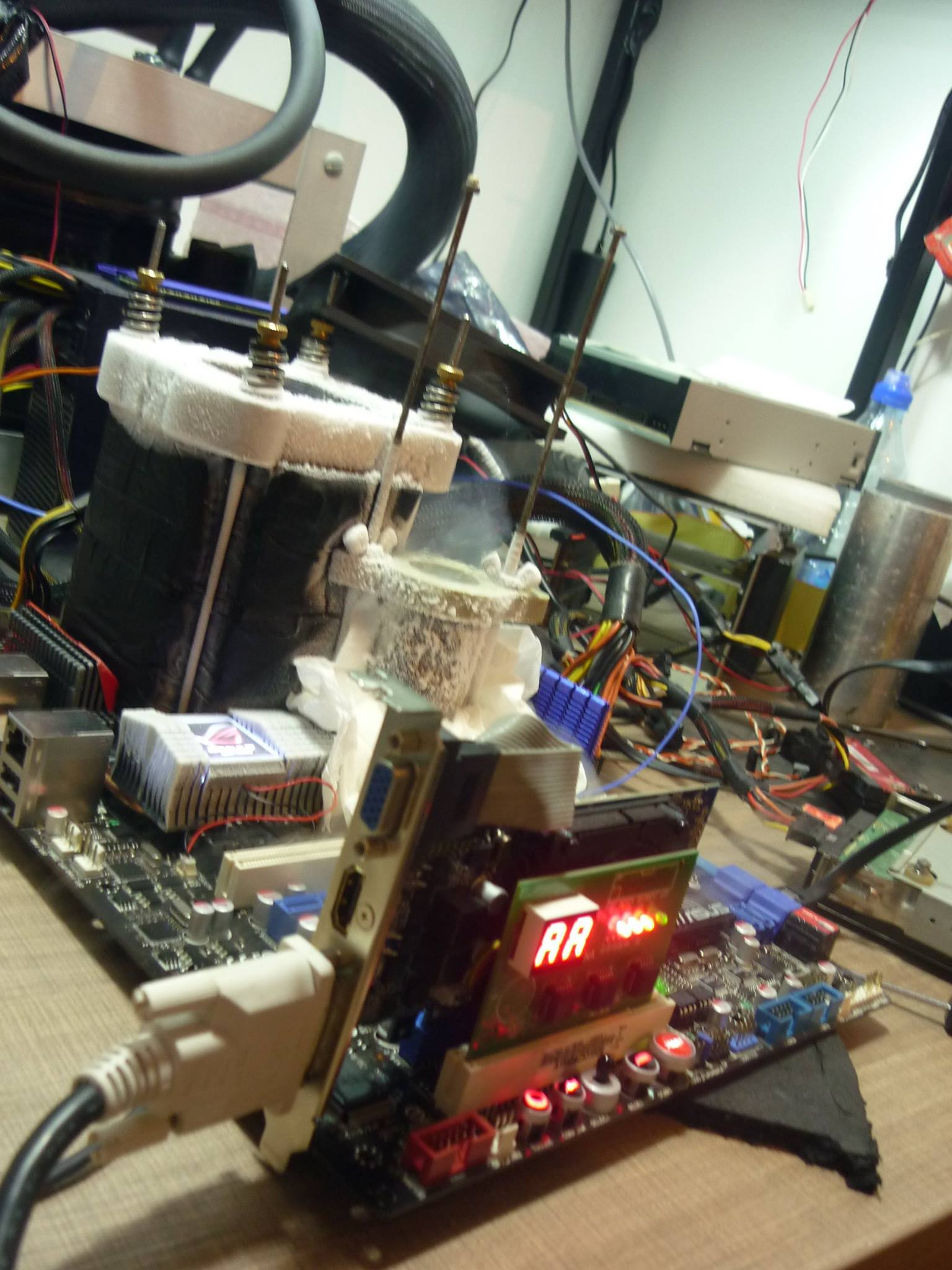 Asus Rampage Extreme and Intel Core2Quad Q6600 on Liquid Nitrogen